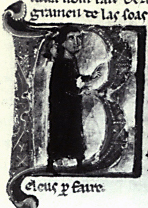 Perdigon, from BnF MS 12473, folio 36r.